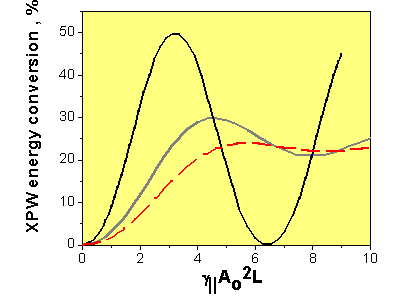 theory of XPW